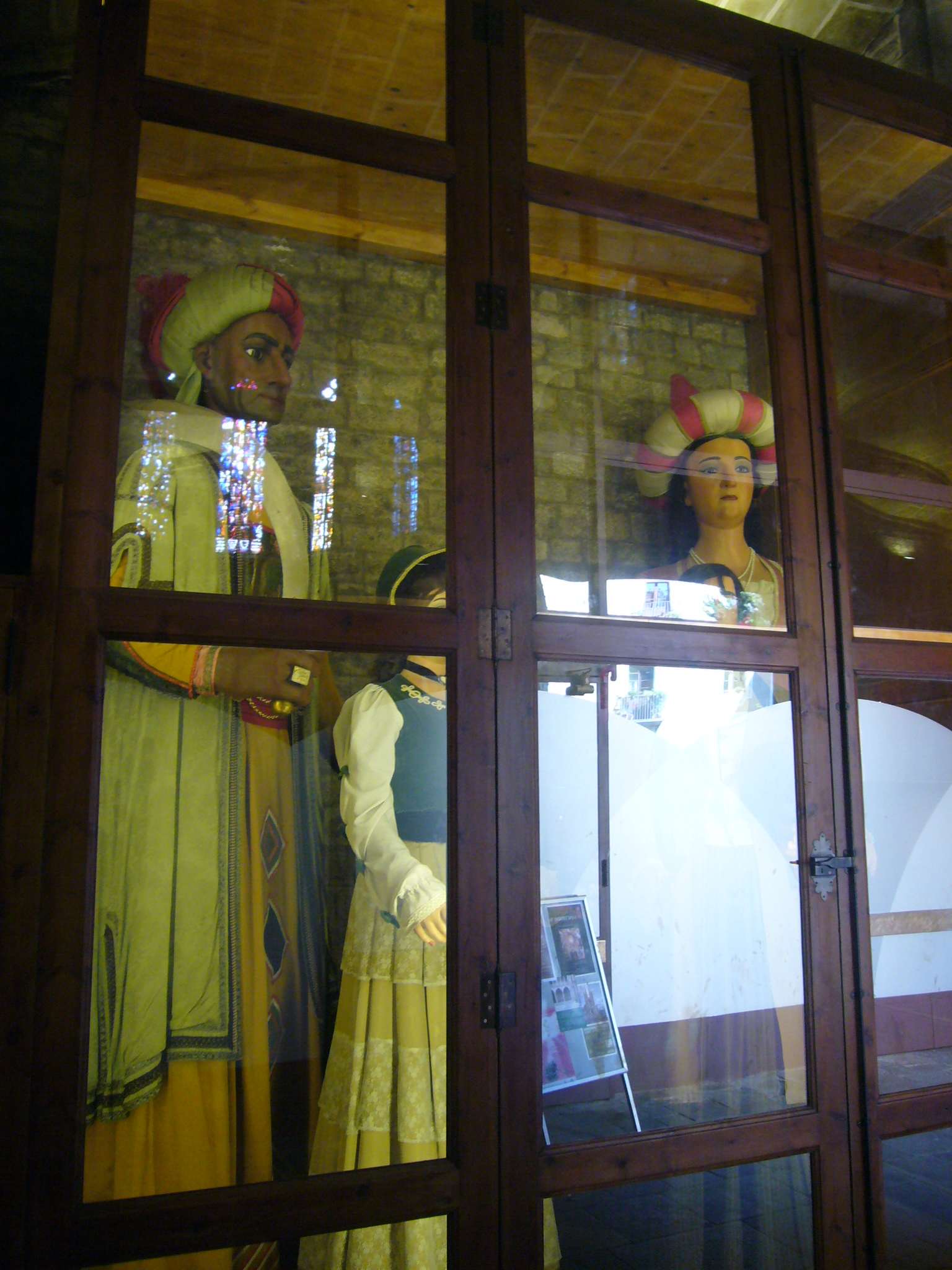 Interior of Santa Maria del Pi. Gegants del Pi.